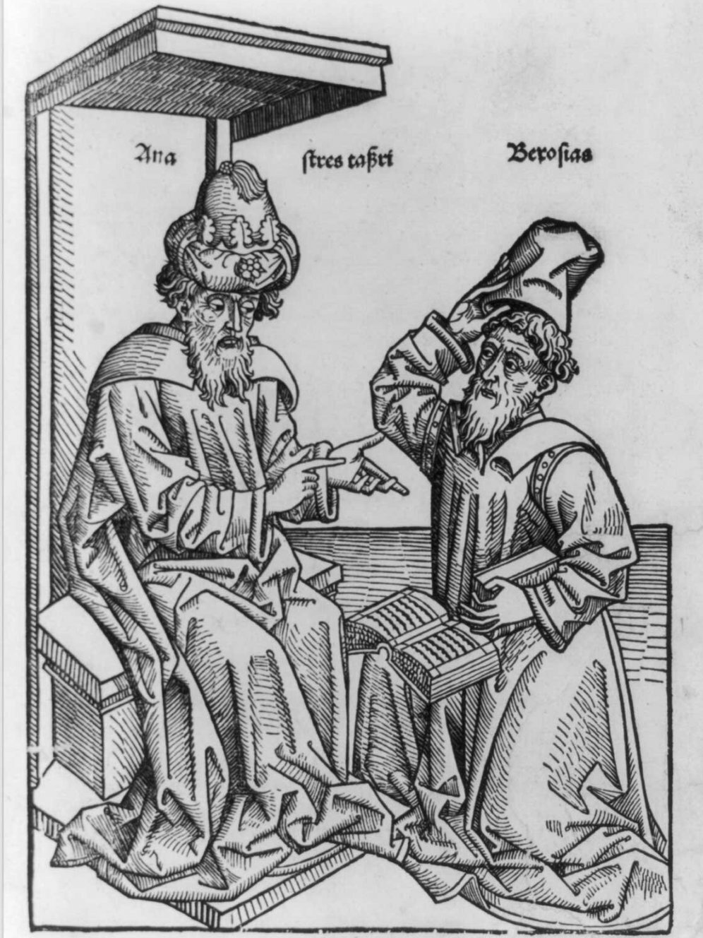 This is a old artwork of Khosrau I, also known as Anushirvan with his physician, Borzuya.